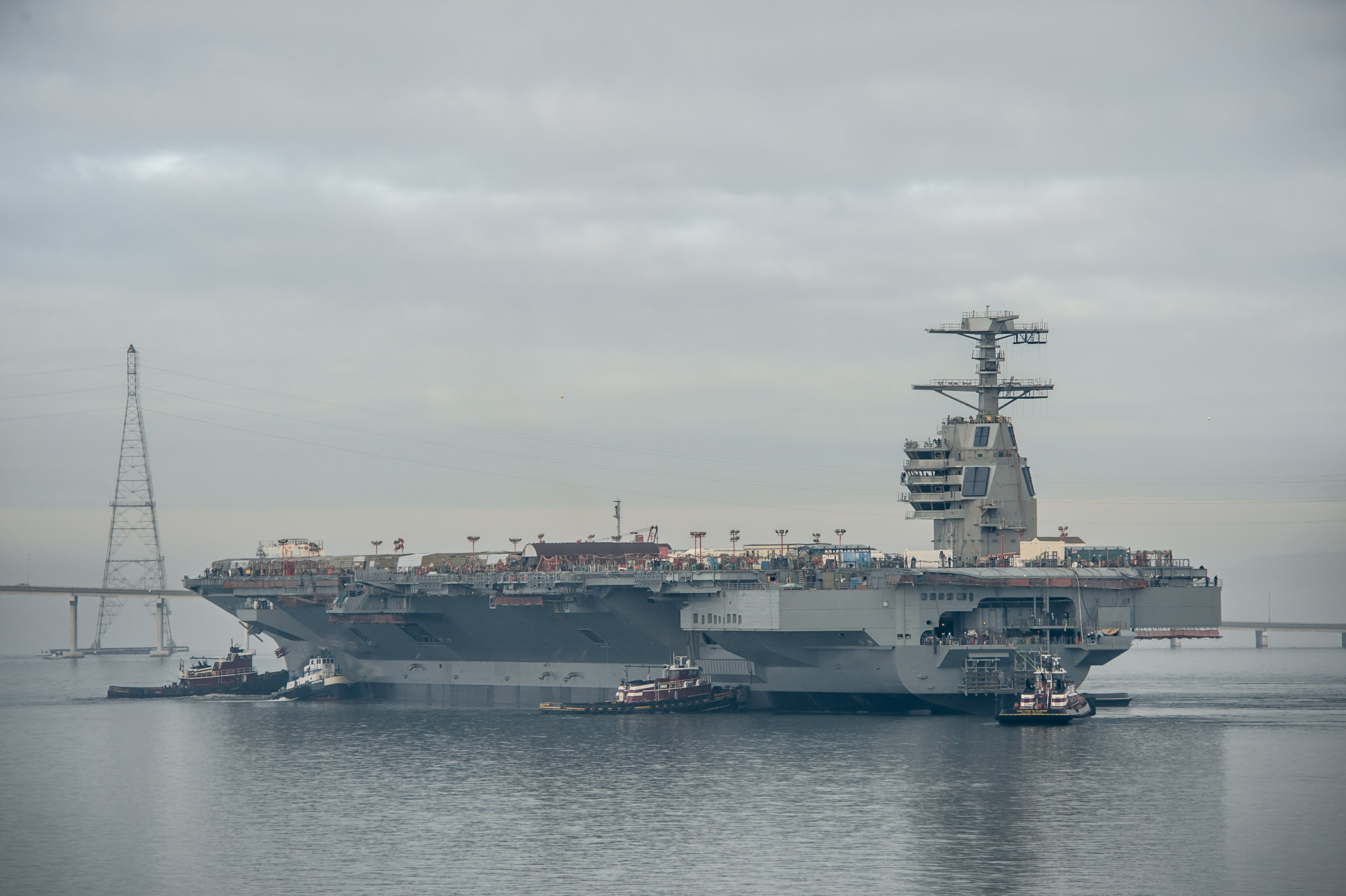 The aircraft carrier Pre-Commissioning Unit (PCU) Gerald R. Ford (CVN 78) is moved to Pier 3 at Newport News Shipbuilding. The ship will undergo additional outfitting and testing for the next 28 months.